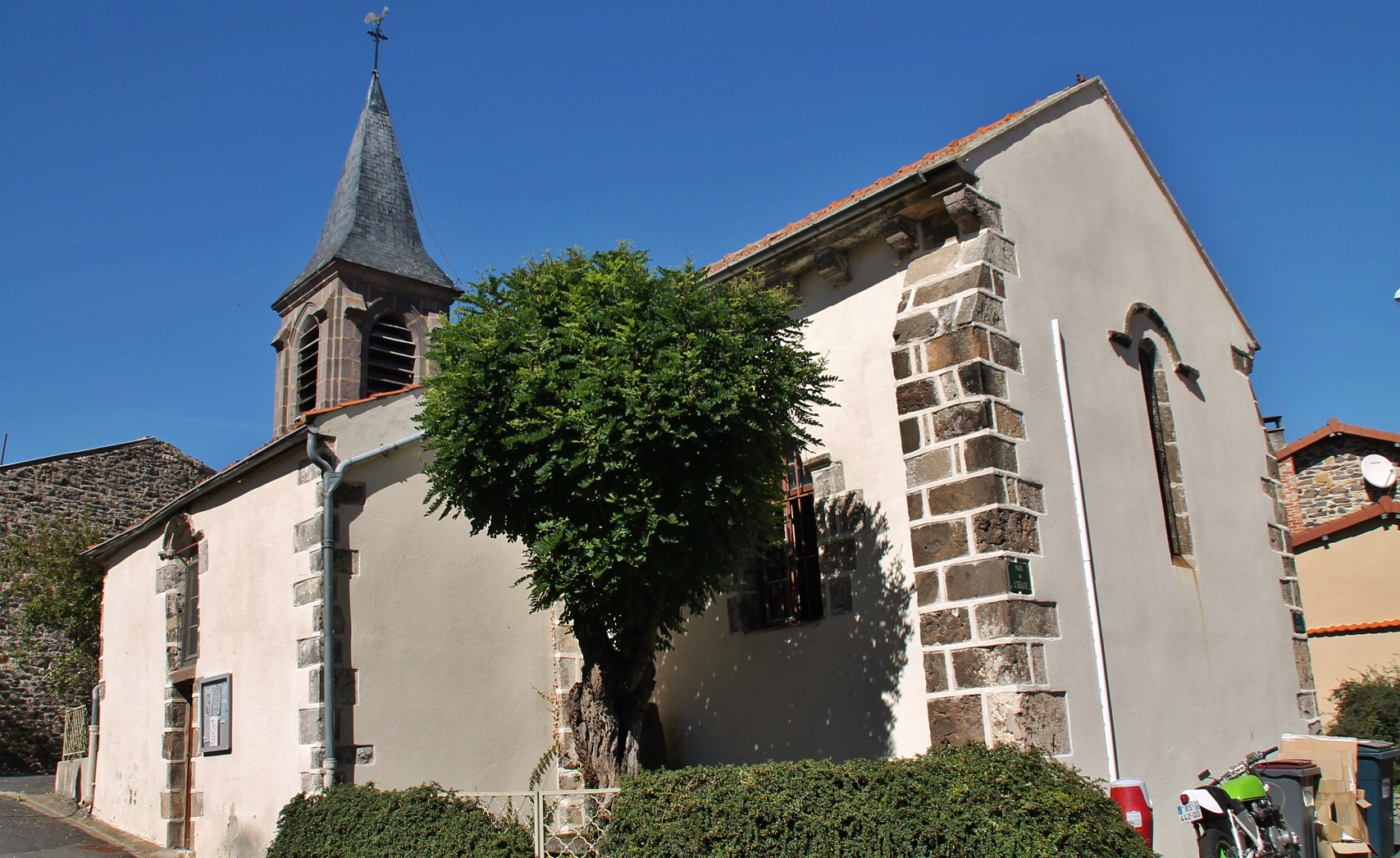 L'église